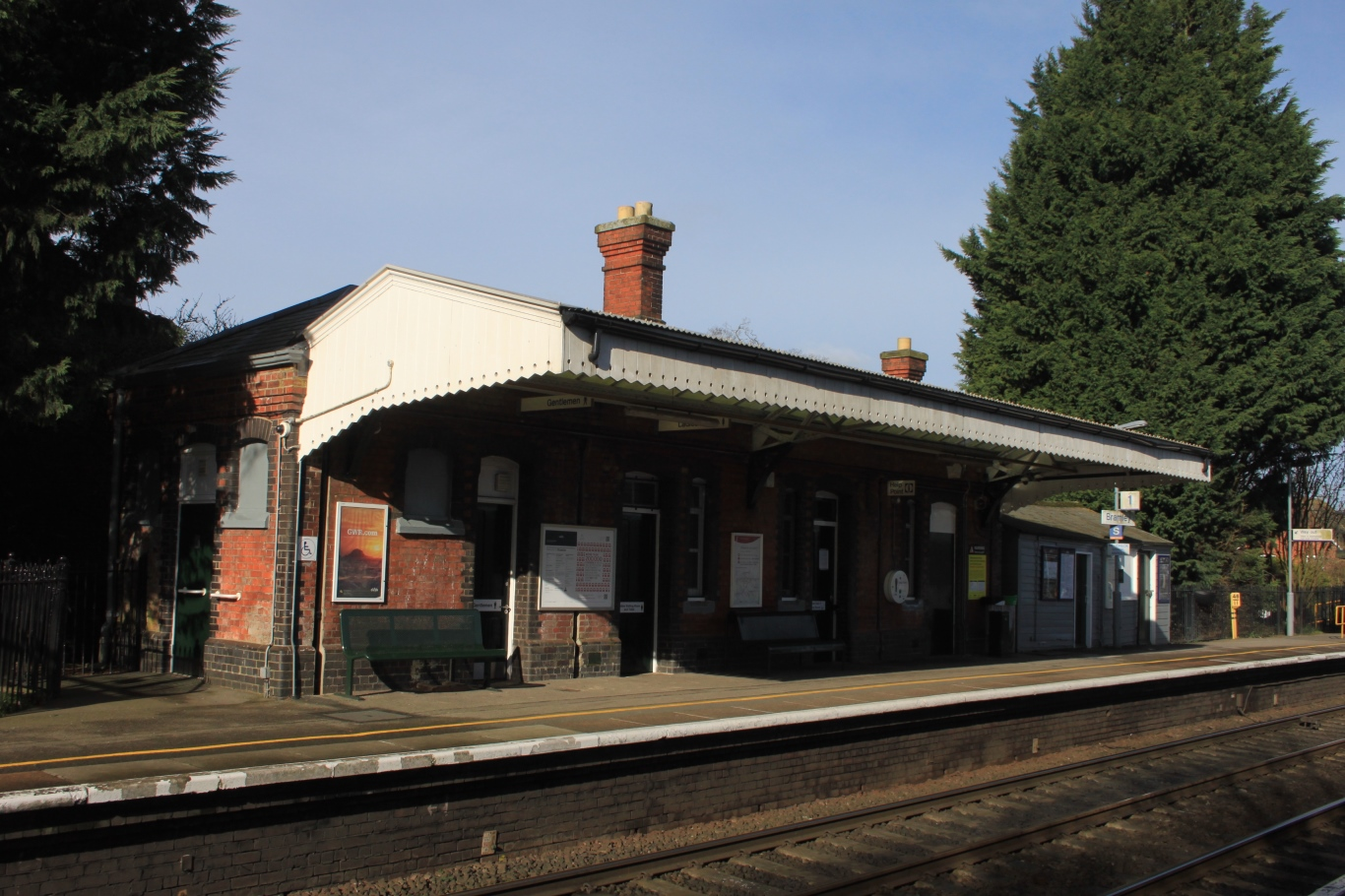 The ticket office at Bramley station in Hampshire is on platform 1 which is served by trains to Reading.